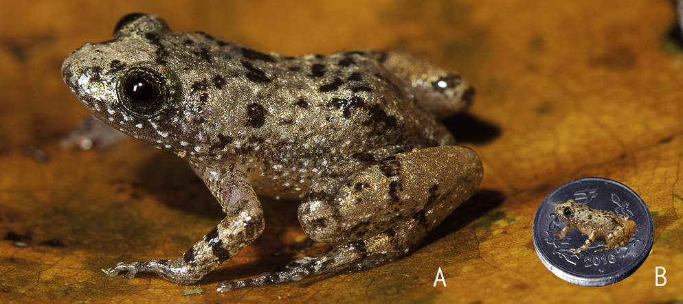 A) Dorsolateral view, in life. (B) Size (SVL 13.3 mm) in comparison to the Indian five-rupee coin (24 mm diameter).